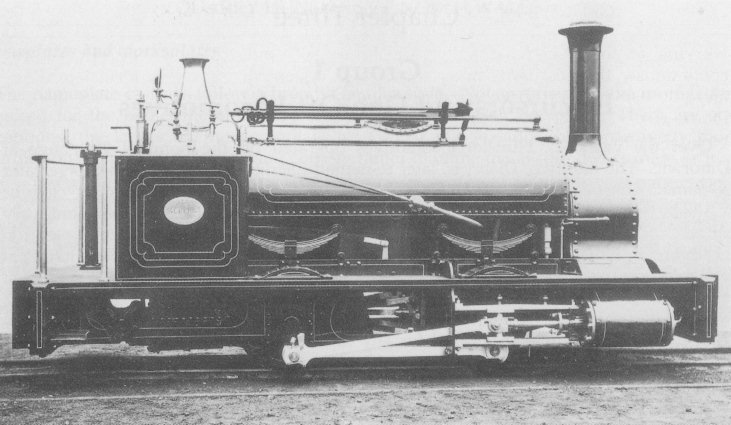 Quarry locomotive Dinorwic (later Charlie) (Works No. 51/1870), Hunslet works photograph